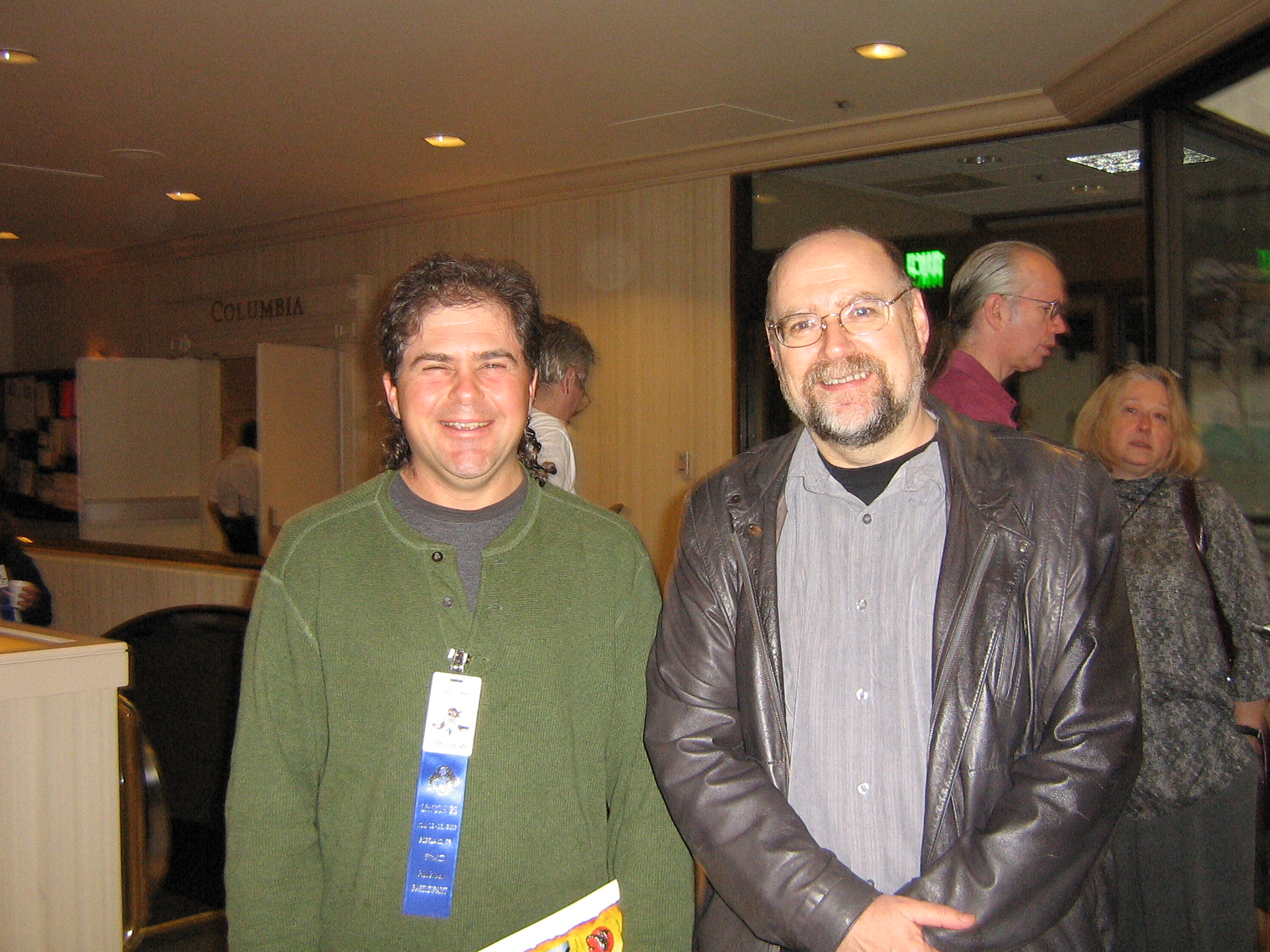 Title says it all.